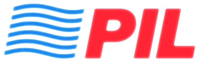 Pacific International lines